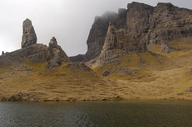 Needle Rock at the Storr. The needle rock is the big pinnacle just right of centre, sitting below the cliffs of the Storr itself. The pinnacle on the left is the Old Man of Storr, in NG5053. The water in the foreground is part of 779855, trapped in a hollow in the extreme landslip terrain.